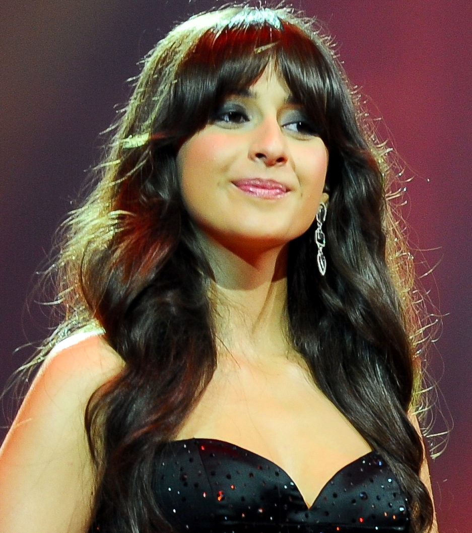 Leyla Aliyeva (presenter)